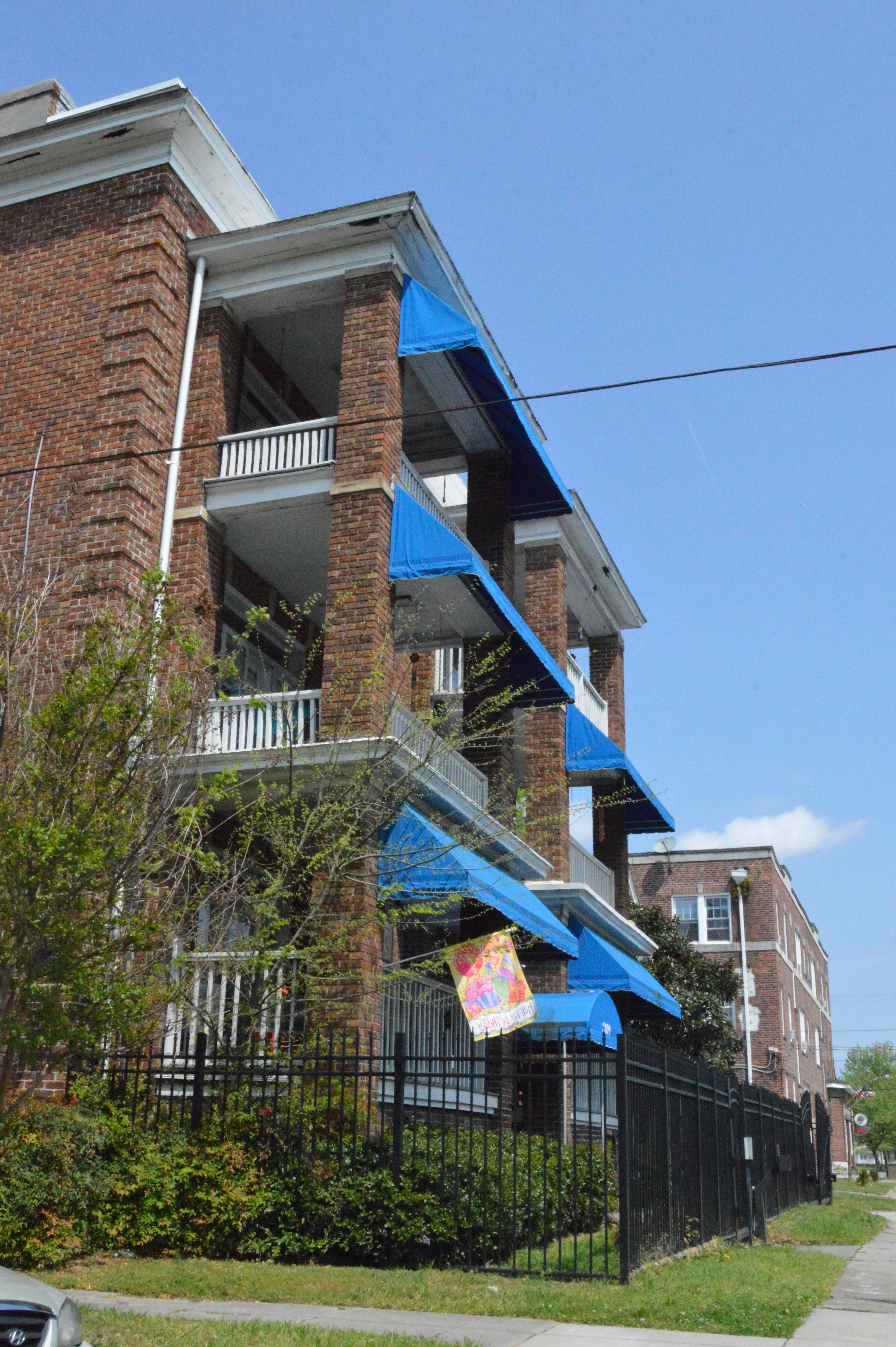 Buildings on the western side of the 2800 block of Colonial Avenue in Norfolk, Virginia, United States. This block is part of the Park Place Historic District, a historic district that is listed on the National Register of Historic Places.